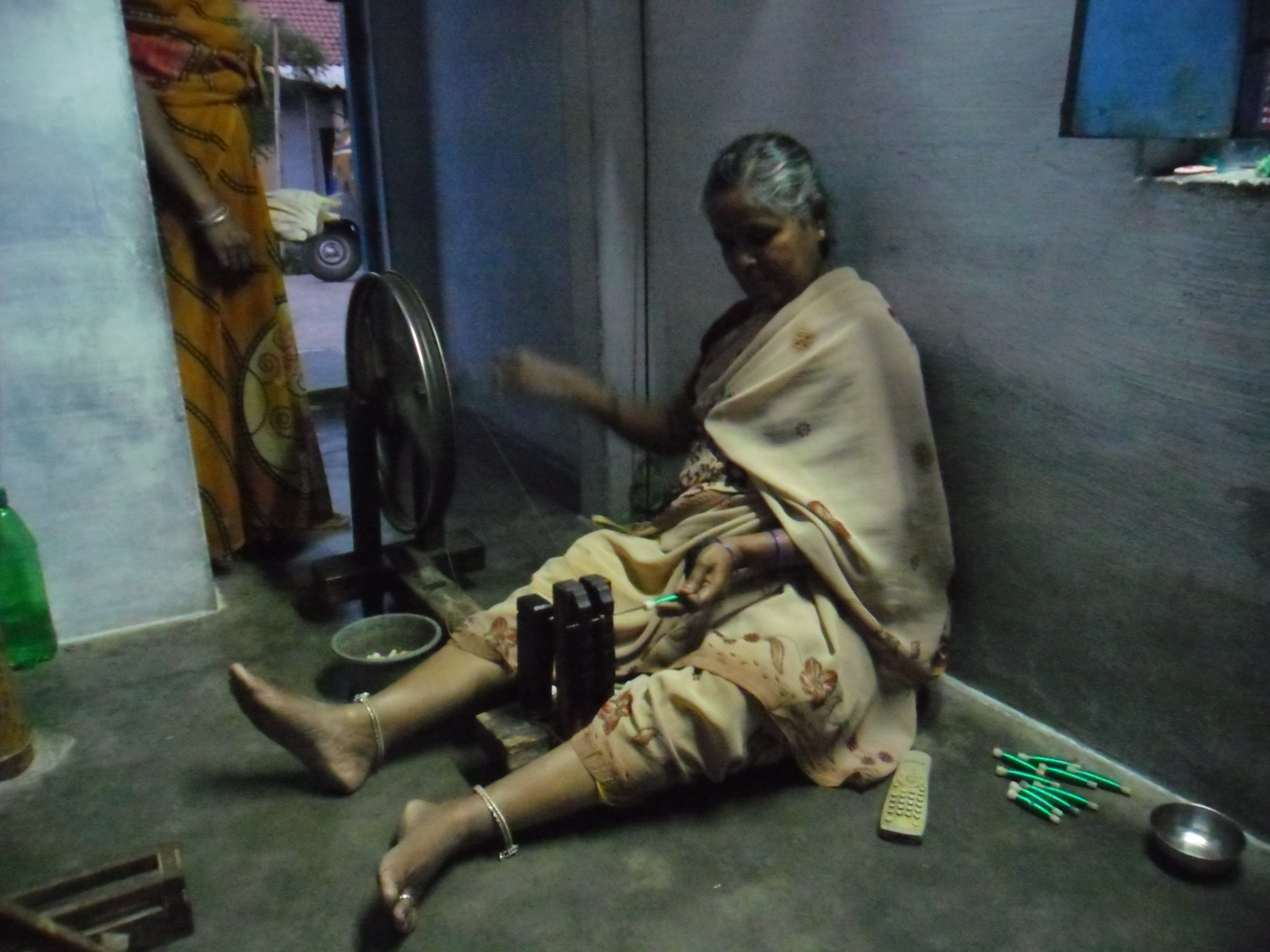 Threading (bobbin winding) using hand wheel.